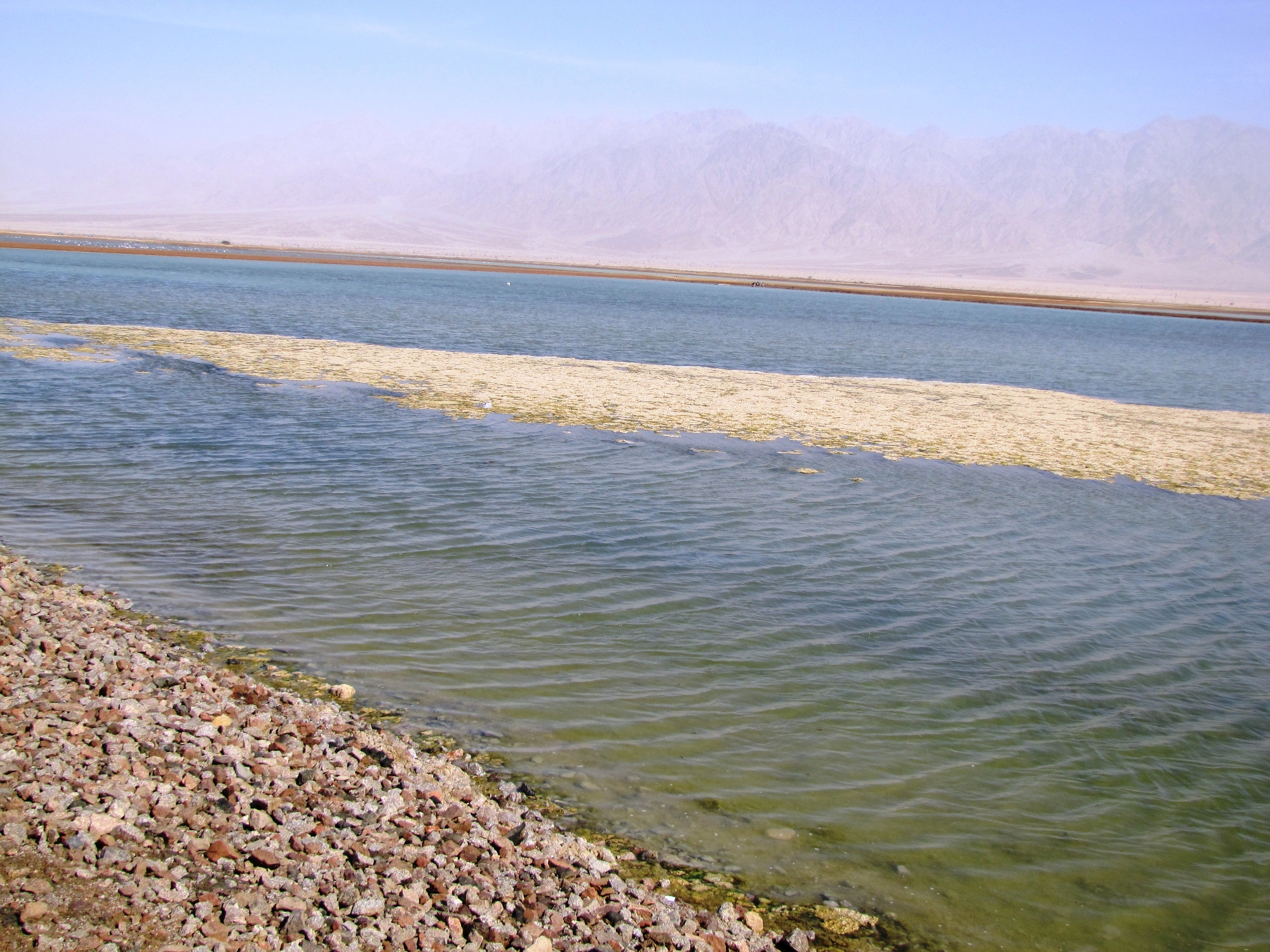 Salt evaporation pond near Eilat, Israel